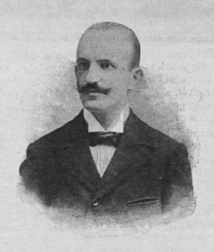 Hugó Poll